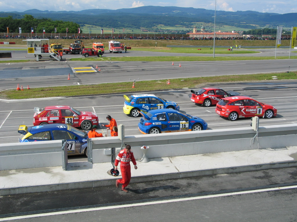 Rallycross Wachauring 2004. Starting grid for the B final of the 2004 ERC round; right to left: Michael Jernberg (Sweden; Ford Focus), Guttorm Lindefjell (Norway; Hyundai Accent), Marko Jokinen (Finland; Peugeot 206), Lars Larsson (Sweden; Škoda Fabia), Péter Kotán (Hungary; Ford Focus) and Alois Höller (Austria; Lancia Delta)